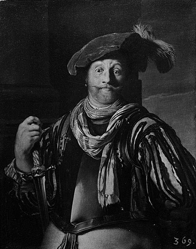 'A soldier in a red beret', by Frans van Mieris the Elder, painted in 1667. This painting was part of the collections of the Gemäldegalerie Alte Meister in Dresden and and it has been missing since the end of World War II, in 1945. - Dimensions: 17,5 x 13,5 cm - Oil painting on wood